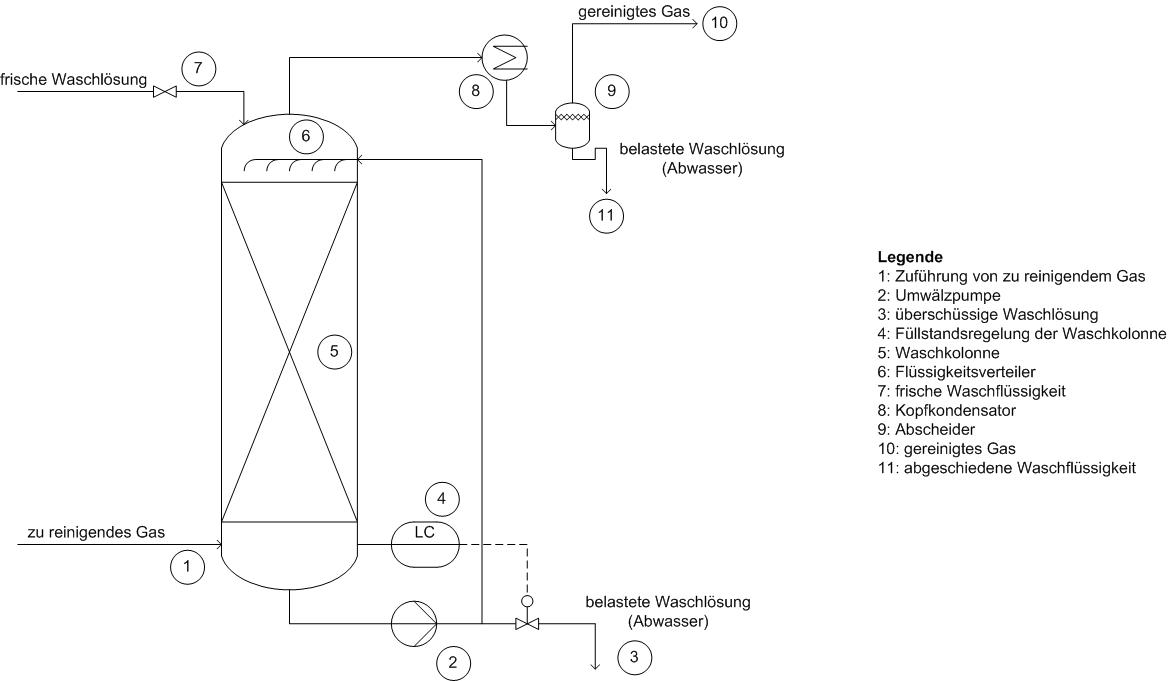 gaswashing